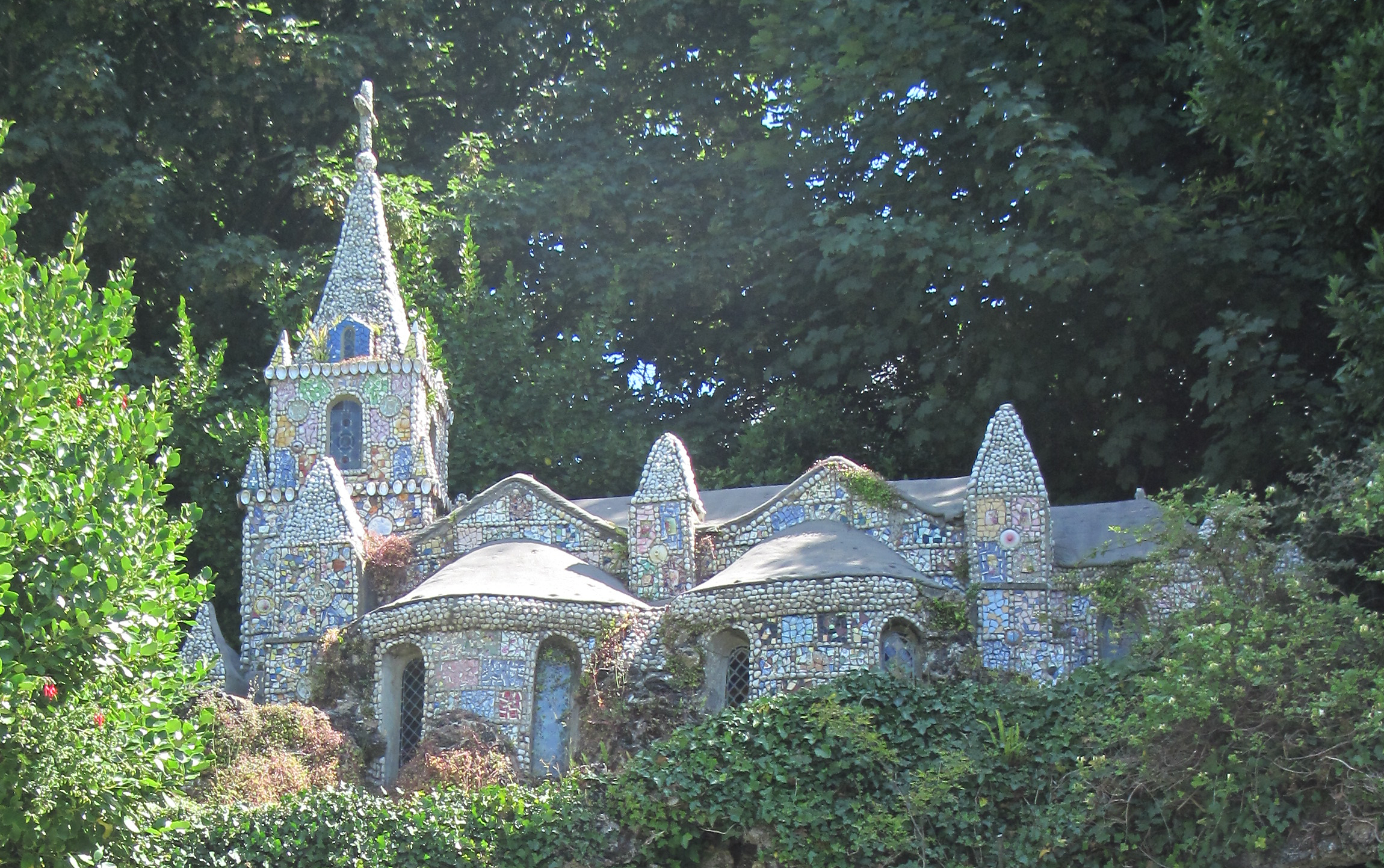 Guernsey, July 2011: Little Chapel at Les Vauxbelets